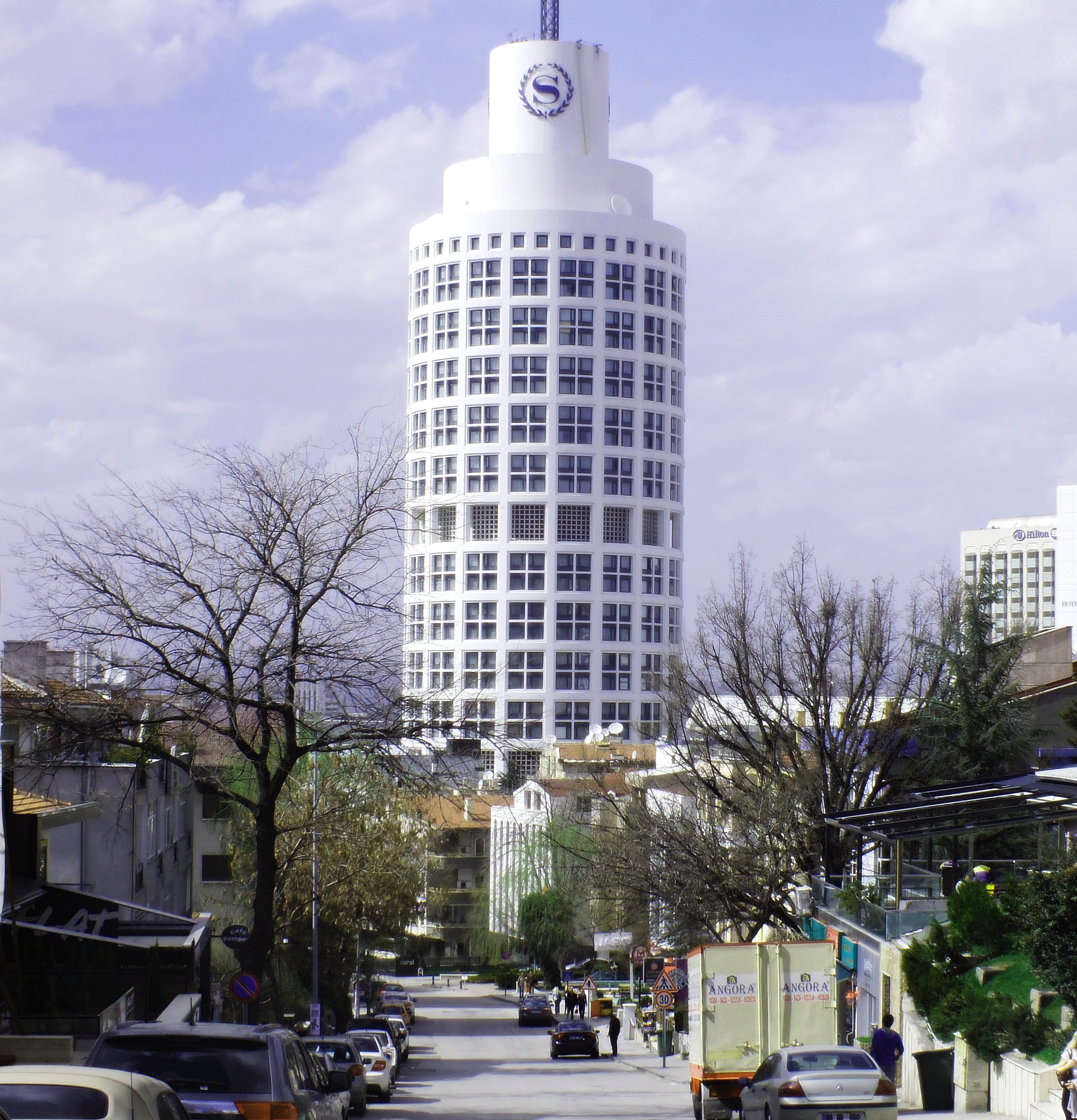 A view of Sheraton Ankara from Arjantin Avenue in Turkey.